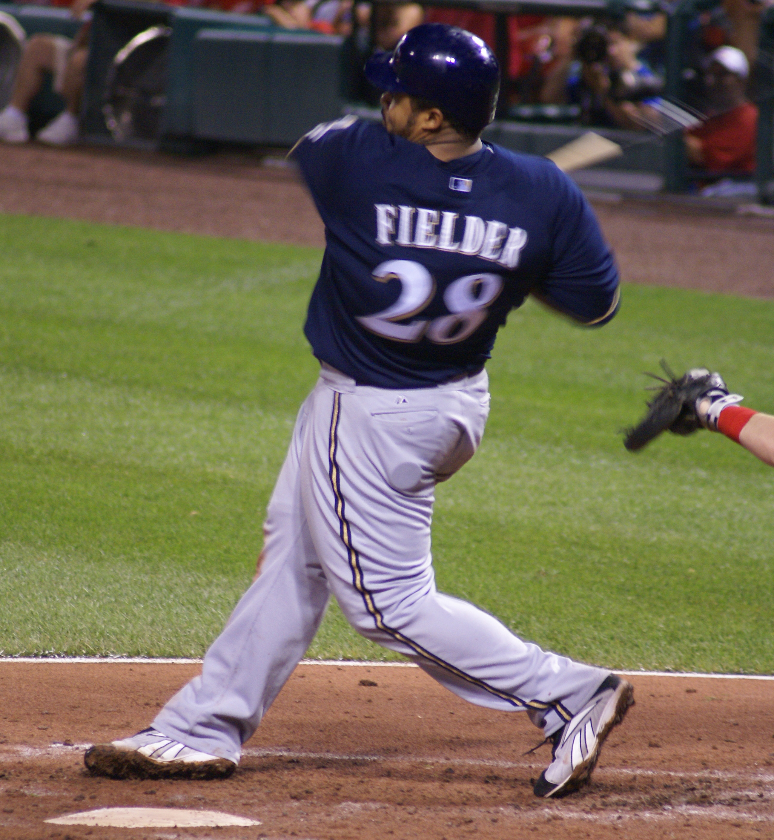 Description Cropped version of Prince Fielder (929557698).jpg DateJuly 27, 2007Source by Killervogel5 12:11, 20 March 2009 . . Killervogel5 . . 2,592×2,812 (1.66 MB) Cropped version of Prince Fielder (929557698).jpg